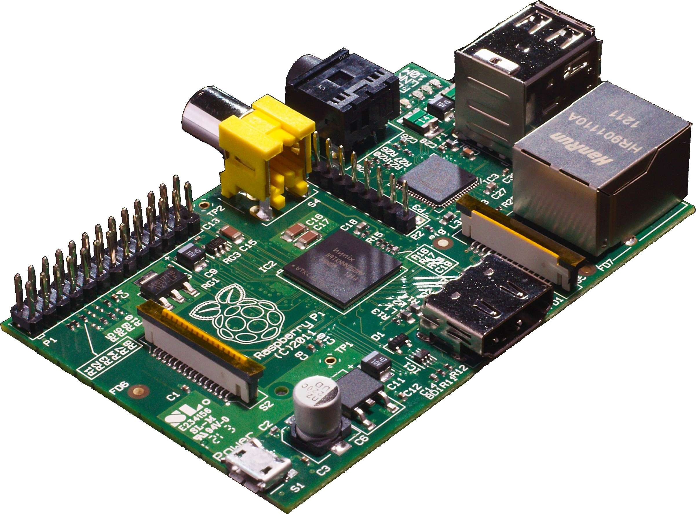 The Raspberry Pi is a credit-card sized computer that plugs into your TV and a keyboard. It’s a capable little PC which can be used for many of the things that your desktop PC does, like spreadsheets, word-processing and games. It also plays high-definition video. We want to see it being used by kids all over the world to learn programming.